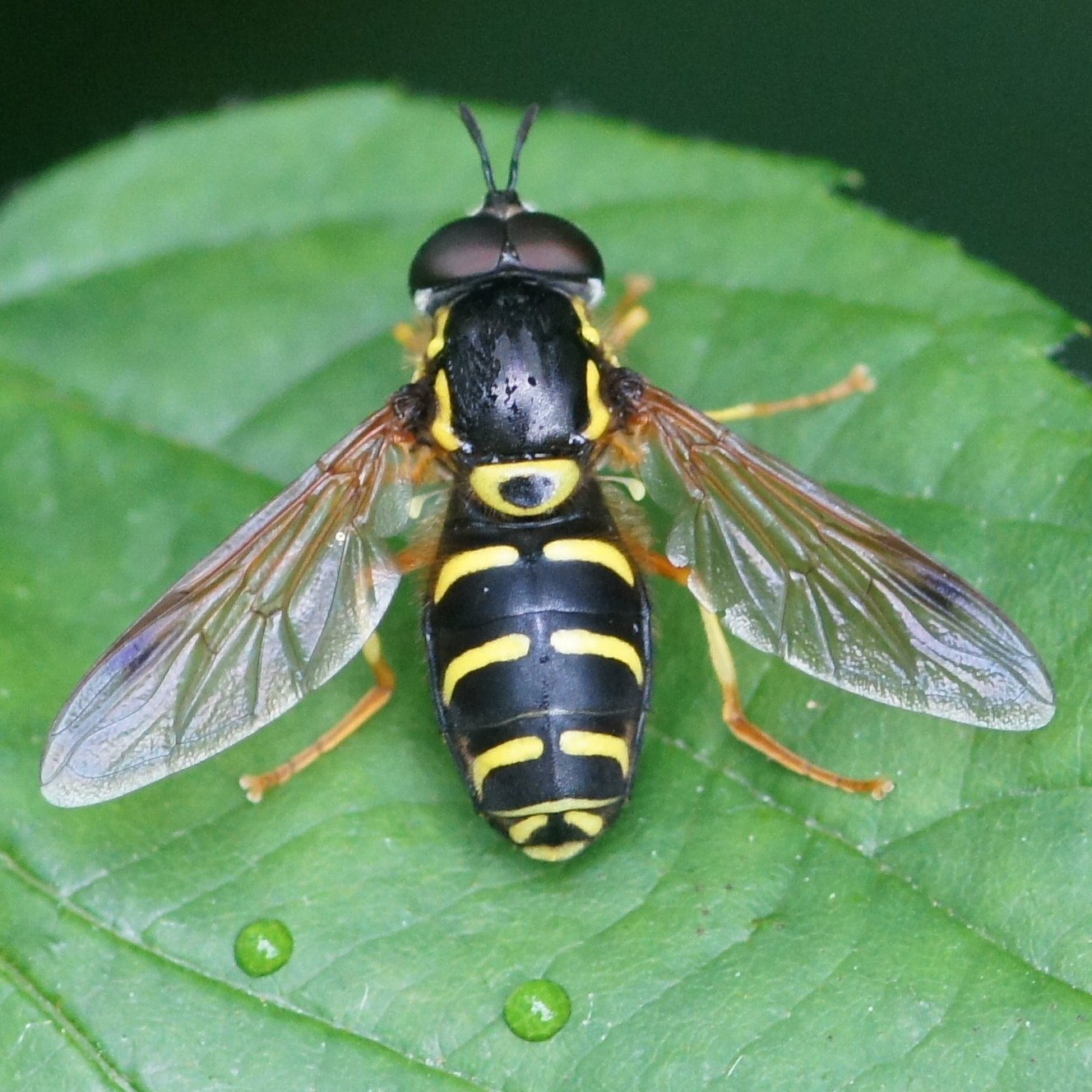 Chrysotoxum festivum (male). Picture taken in Skåne, Sweden.